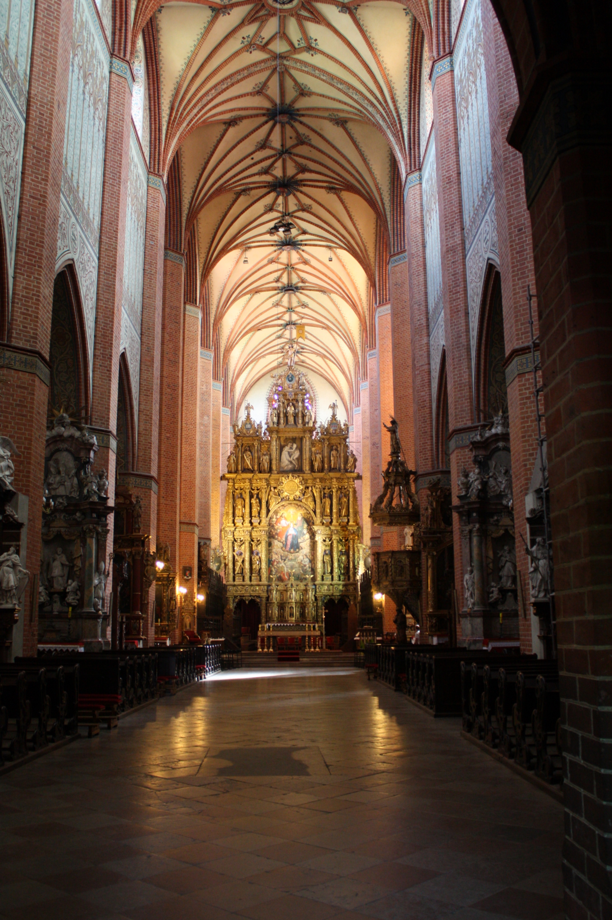 Pelplin Cathedral